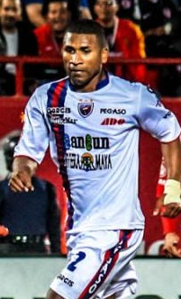 Ecuadorian player Jorge Guagua